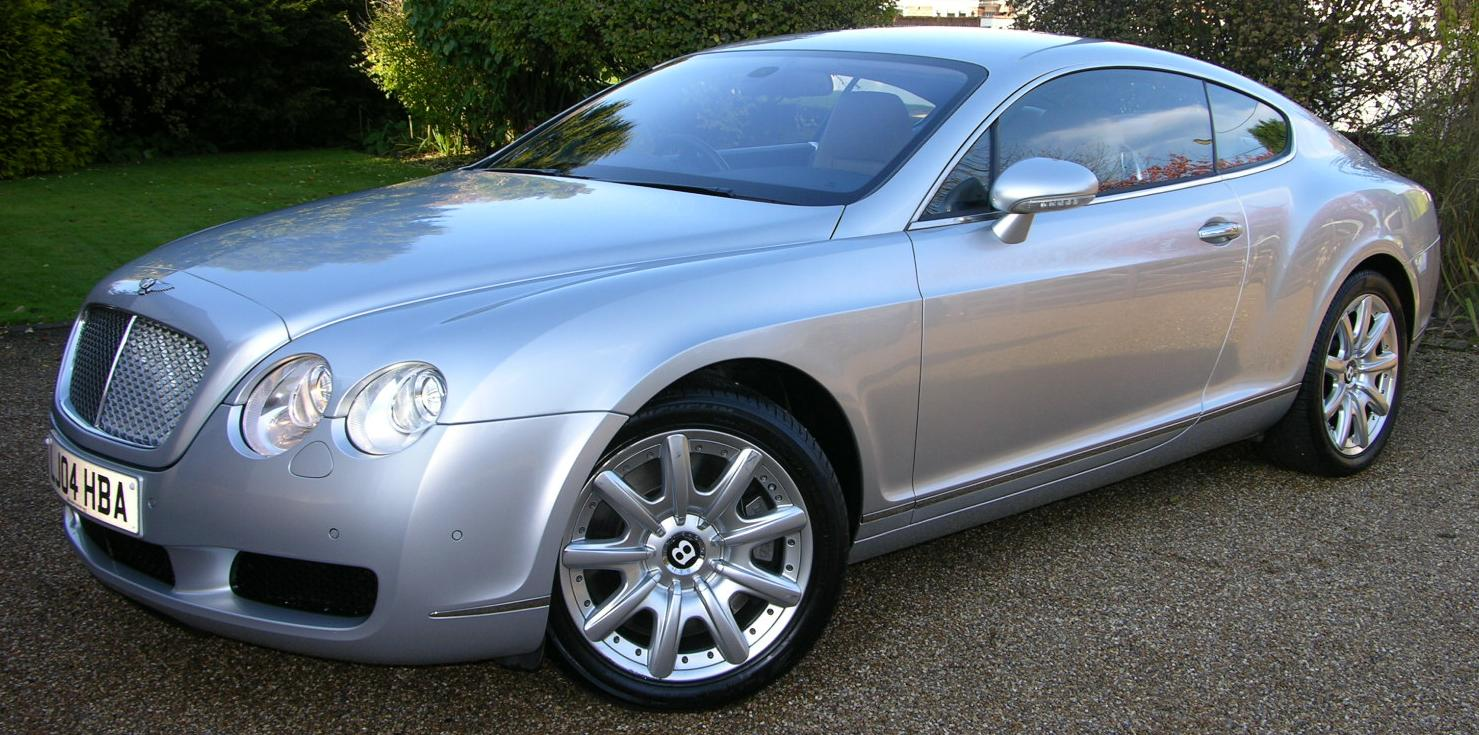 Bentley Continental GT